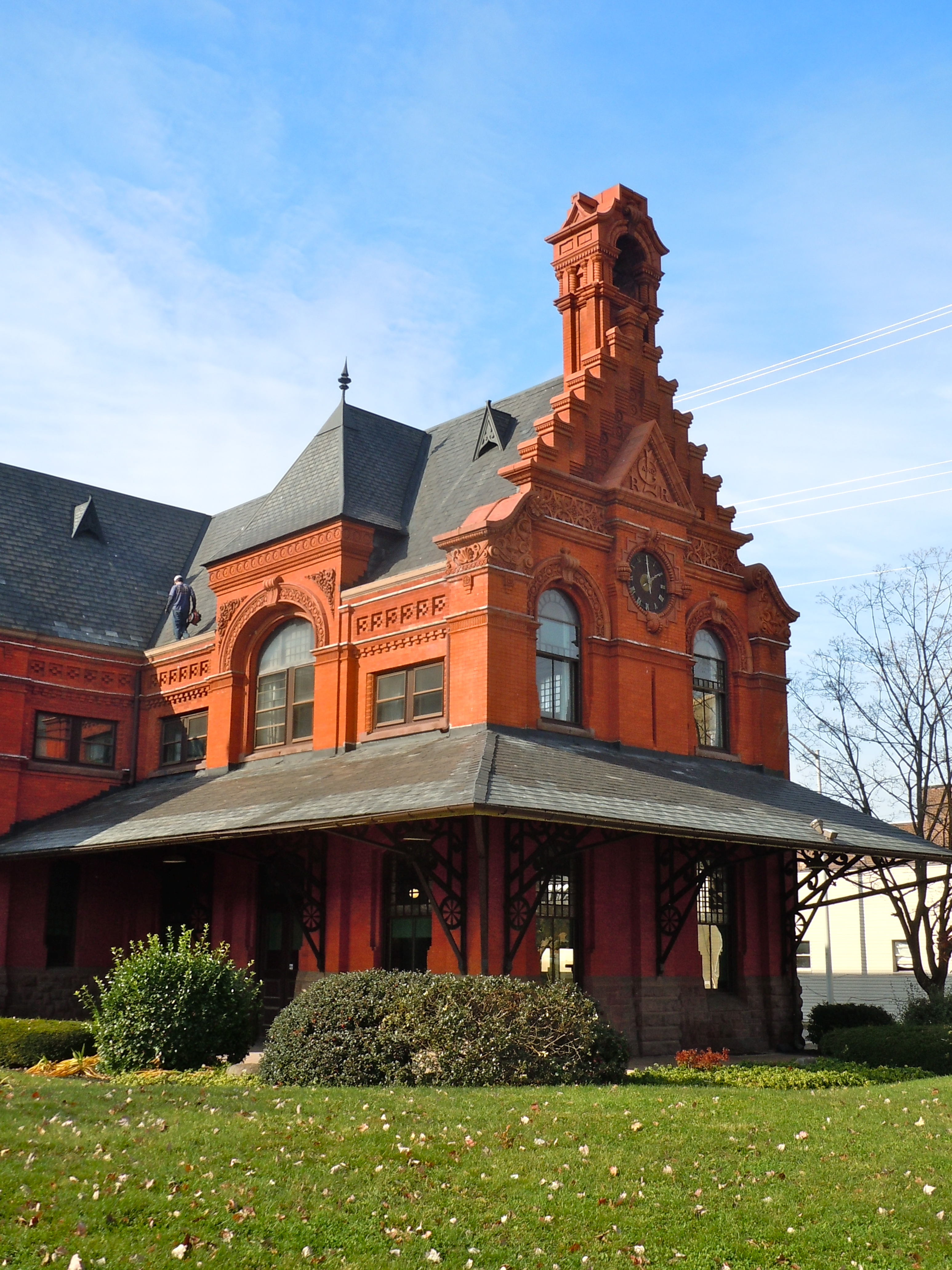 Cornwall & Lebanon Railroad Station (part of) on the NRHP since December 4, 1974. At 161 North 8th Street, Lebanon, Pennsylvania